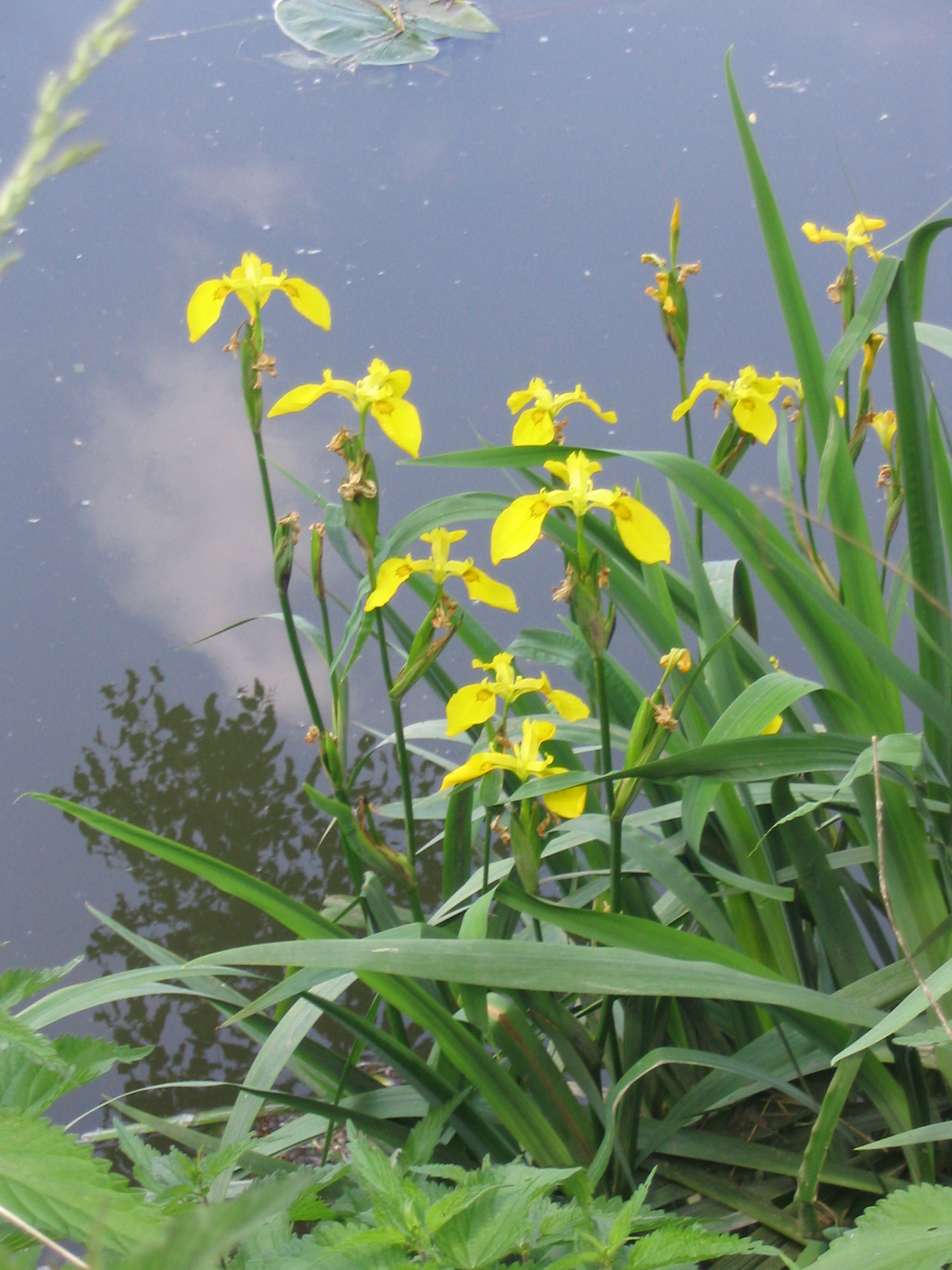 at the river Nidda in Frankfurt am Main, Germany